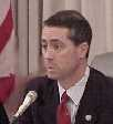 Rep. Mac Thornberry